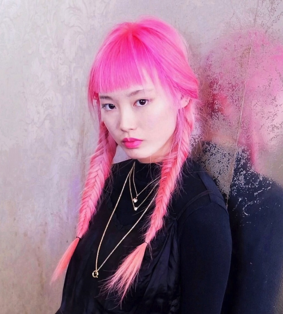 Model Fernanda Ly after a hair appointment at Valonz in 2018